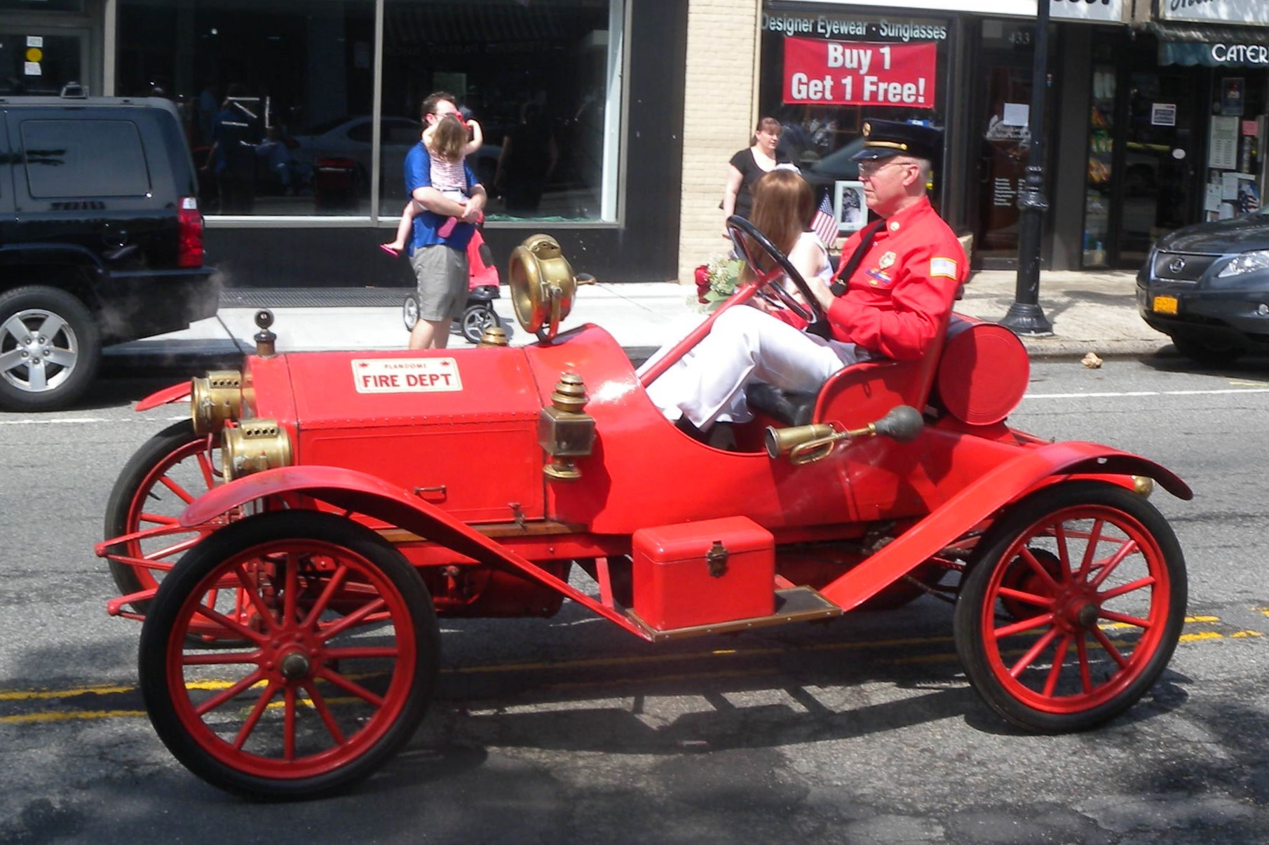 1912 Metz Model 22 runabout, Chief's buggy, Plandome Fire Department, riding Southbound (looking west) on Plandome Road, Manhasset, NY. Memorial Day Parade 2011.